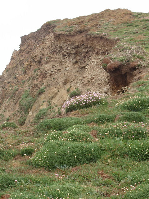 Crumbling cliff with thrift, north of Northcott Mouth The thrift is just coming into flower. View from coastal path climbing up from Northcott Mouth.